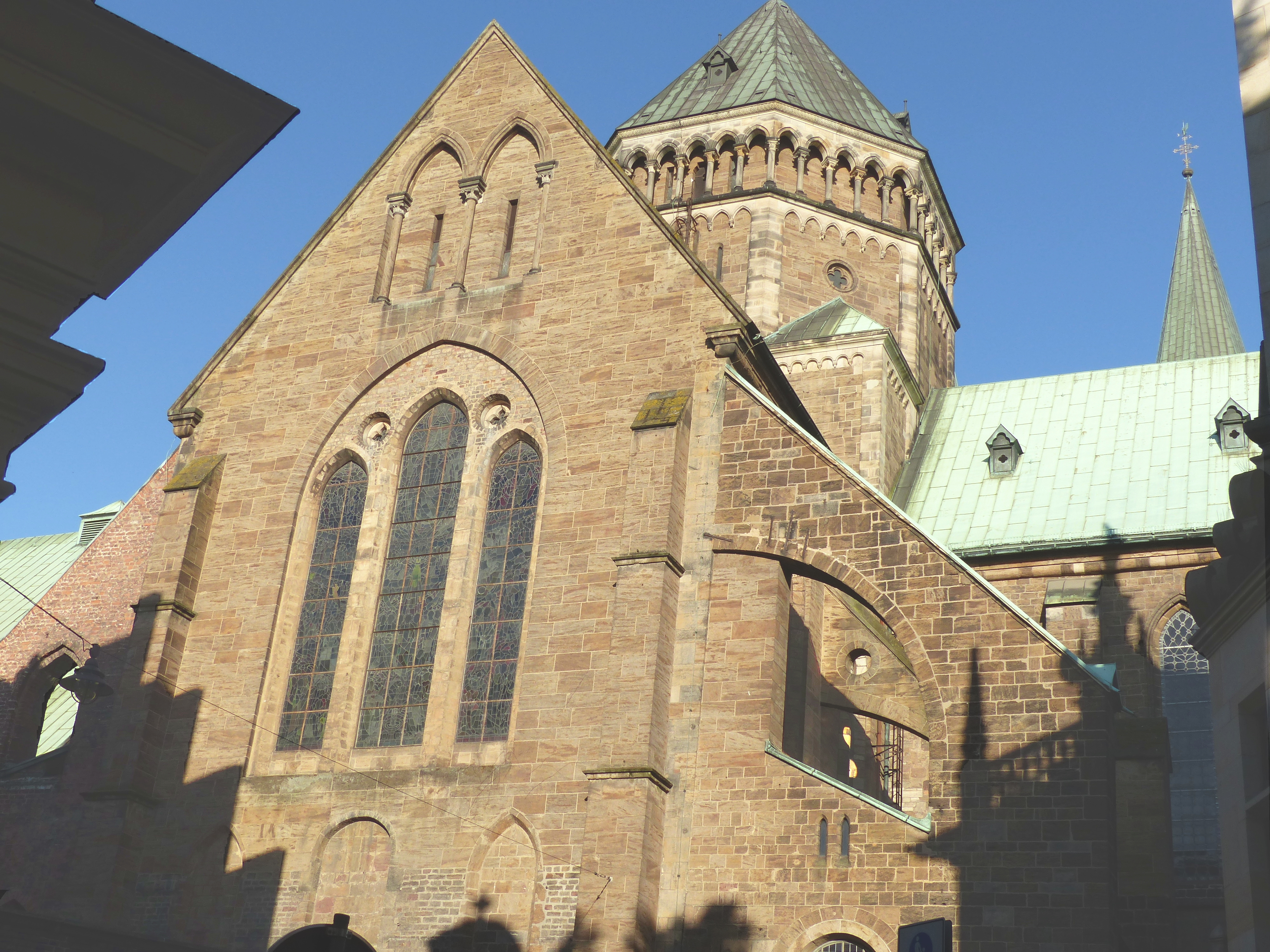 Choir, crossing tower and transept of Bremen Cathedral, seen from the entrance of Wilhadistraße